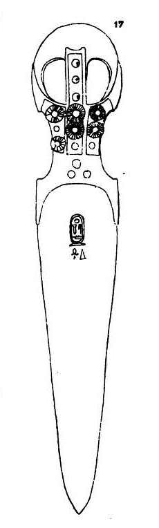 Drawing of an ancient Egyptian dagger bearing the name of pharaoh Sewadjenre (Nebiryraw I). Copper, from Hu (=Diospolis Parva) cemeteries, tomb Y 237. Reign of Nebiryraw I, 16th or 17th Dynasty, Second Intermediate Period. Cairo JE 33702.